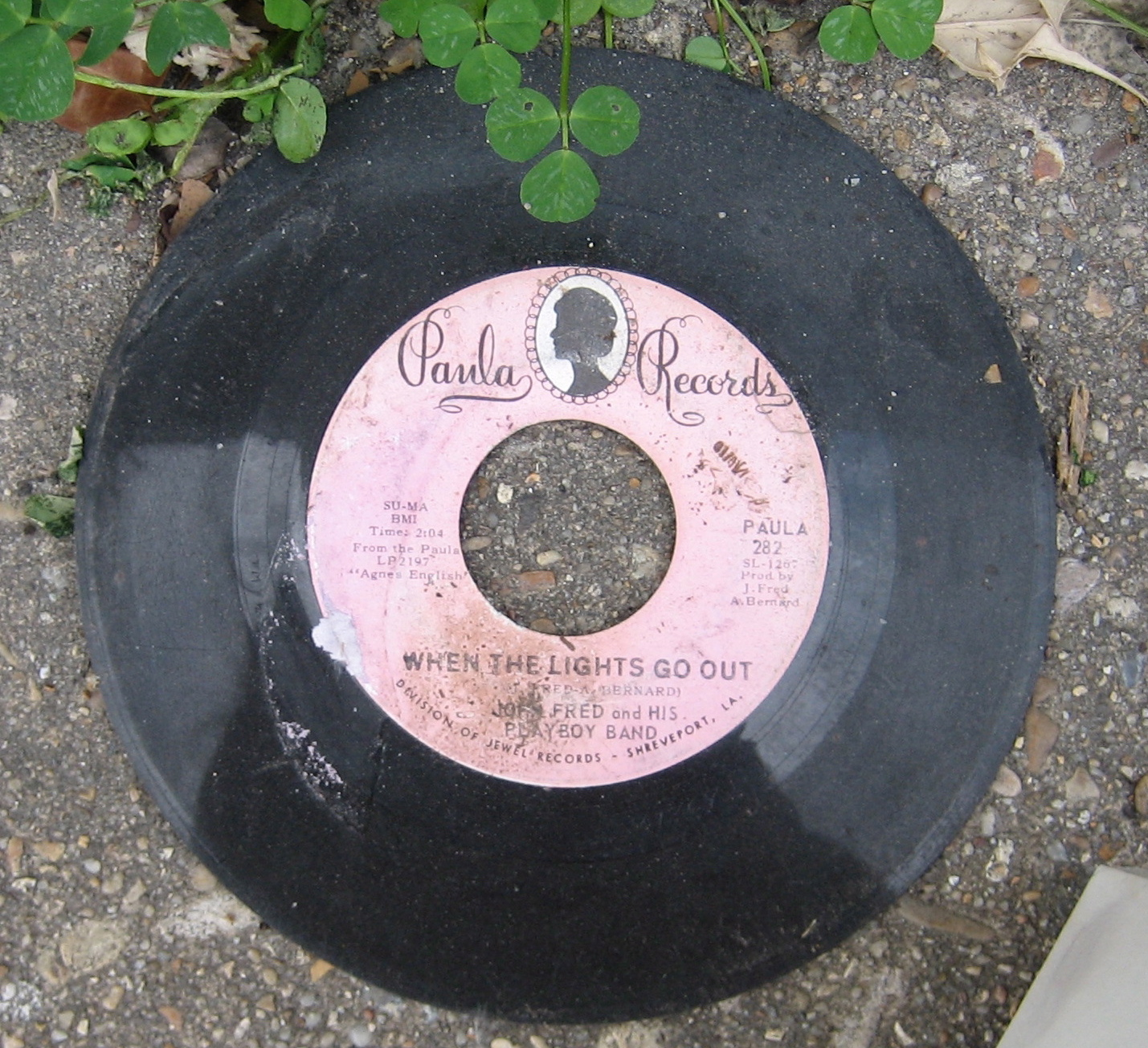 Hurricane Katrina aftermath in New Orleans: Flood damaged Broadmoor neighborhood. Debris includes broken gramophone record of the Shreveport, Louisiana based Paula label.